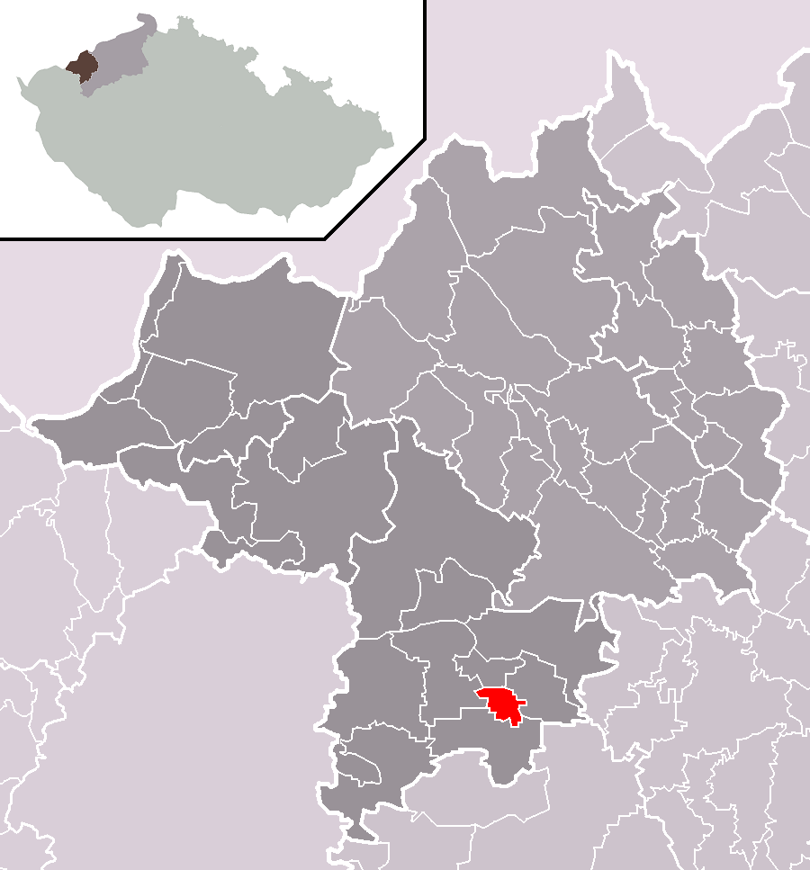 Location of Račetice municipality within Chomutov District and administrative area of Kadaň as a Municipality with Extended Competence.